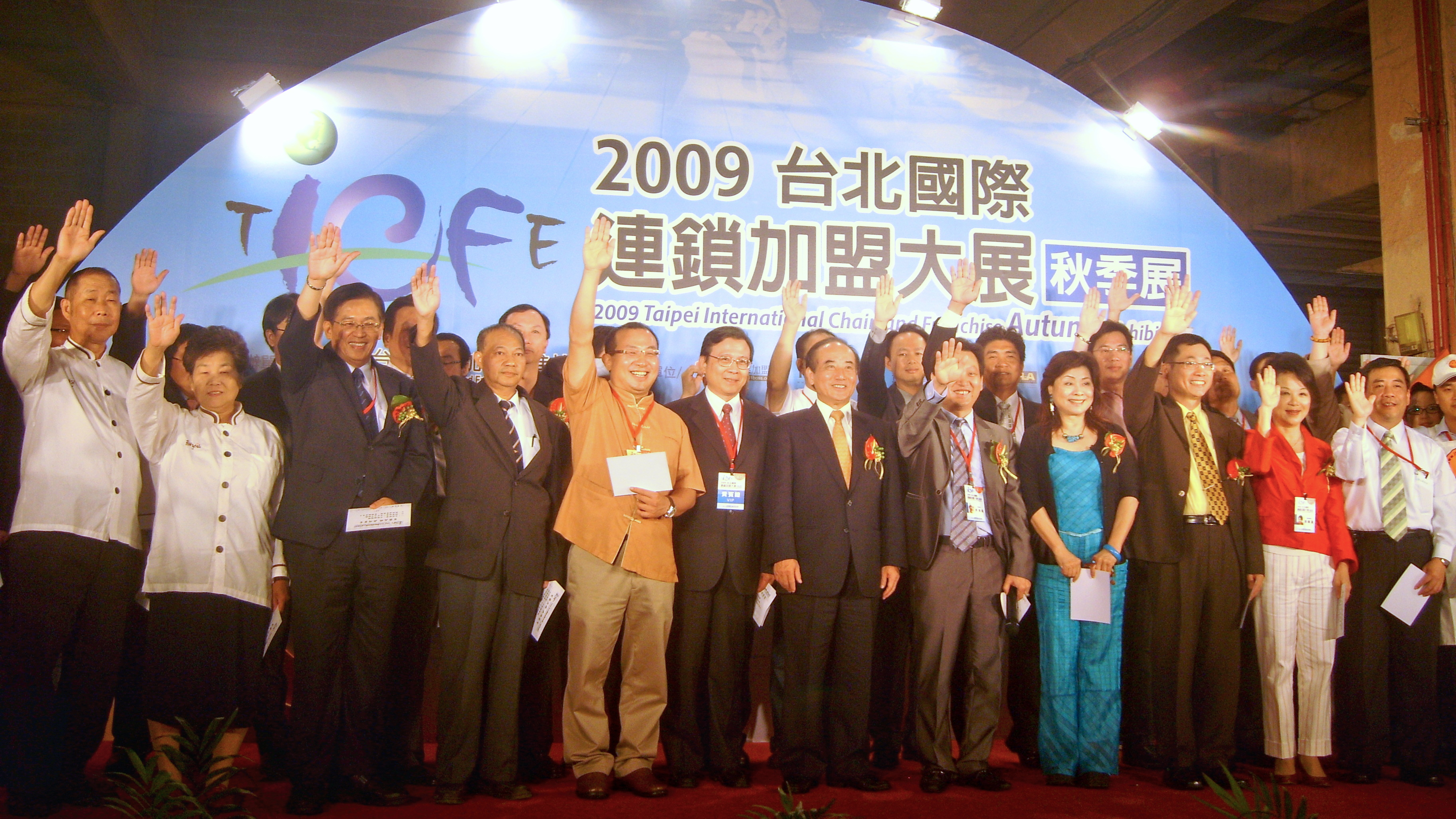 The Oath of Excellent Brands during Opening Ceremony of 2009 Taipei International Chain and Franchise Autumn Exhibition.